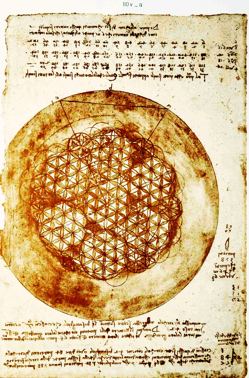 This is a picture of one of Leonardo da Vinci's drawings of the ornamental structure named today “Flower of Life”.